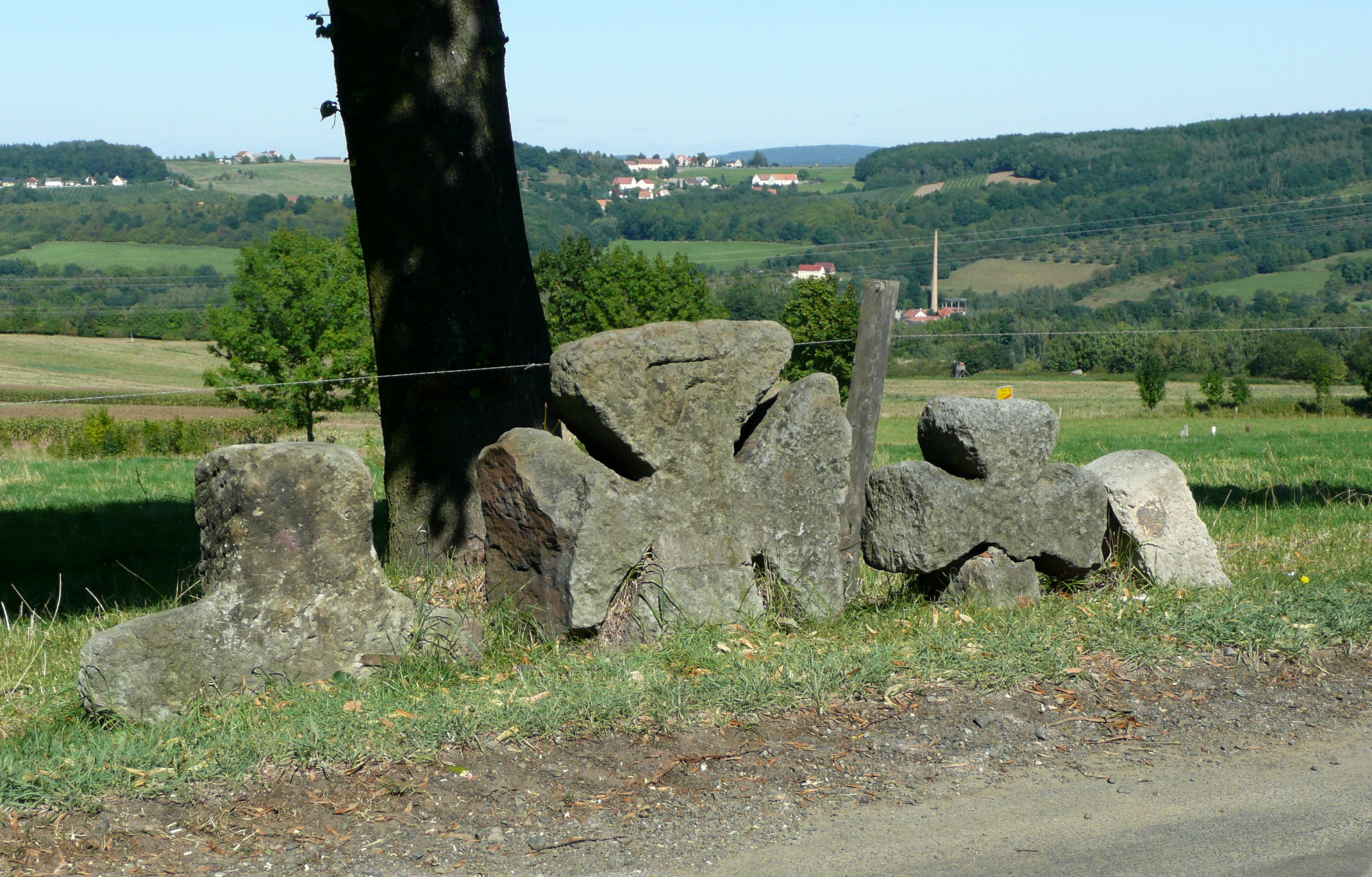 This image shows a group of three stone crosses in Cotta.